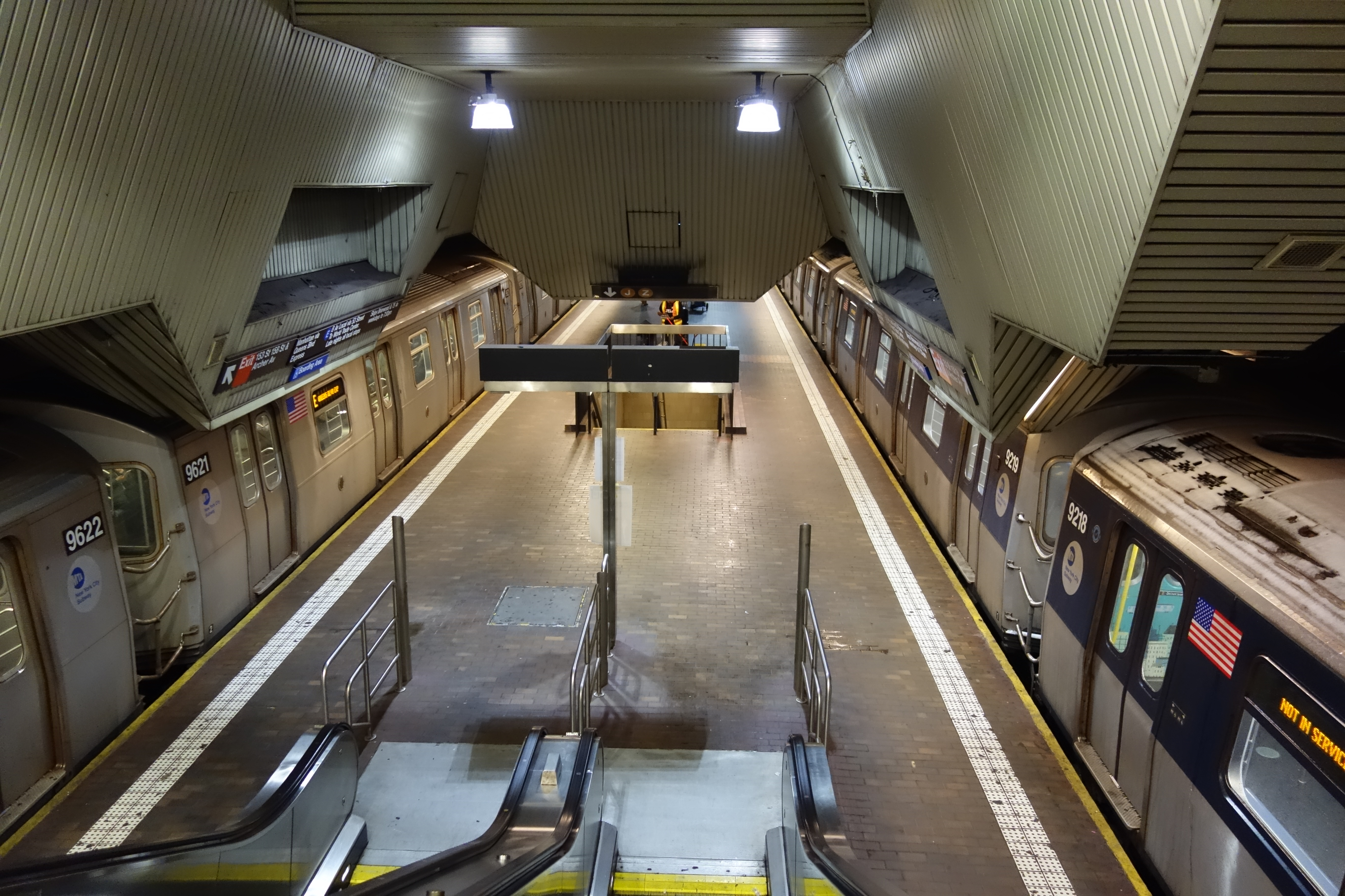 Looking down at the IND (E train) platform from the western mezzanine of the Jamaica Center – Parsons/Archer subway station, under Archer Avenue and 153rd Street in Jamaica Center, Queens.